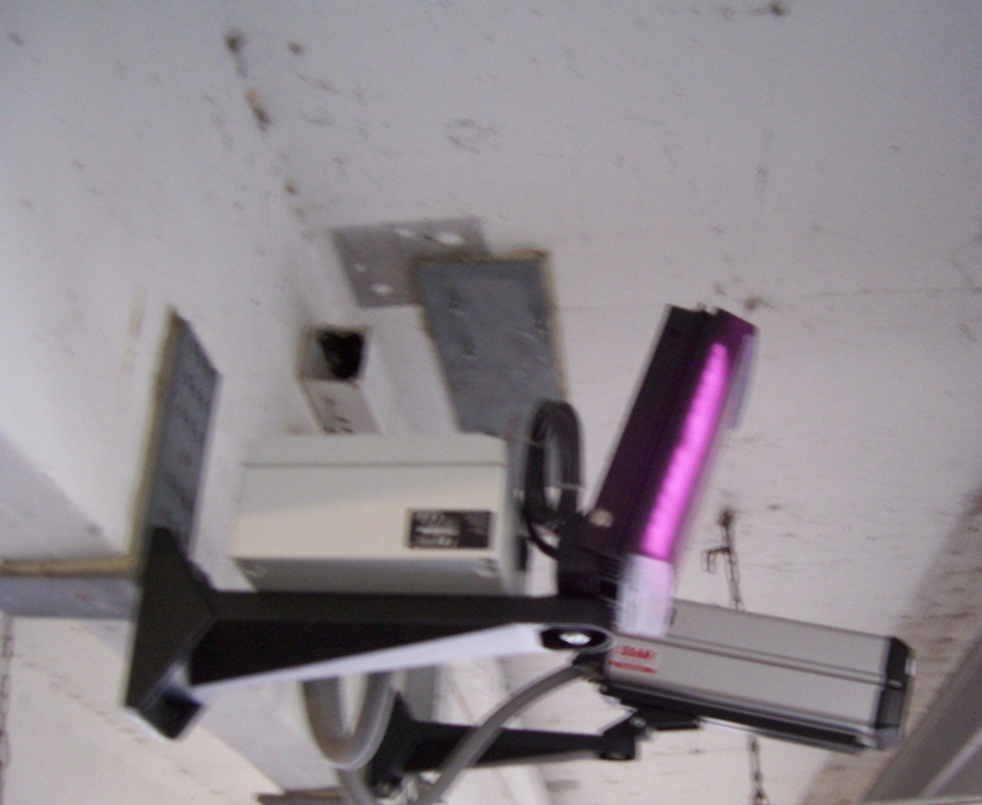 Swiss European surveillance: facial recognition and vehicle make, model, color and license plate reader. In Germany and Switzerland you cannot drive anywhere without the “authorities” tracking you and logging your movement for future reference.